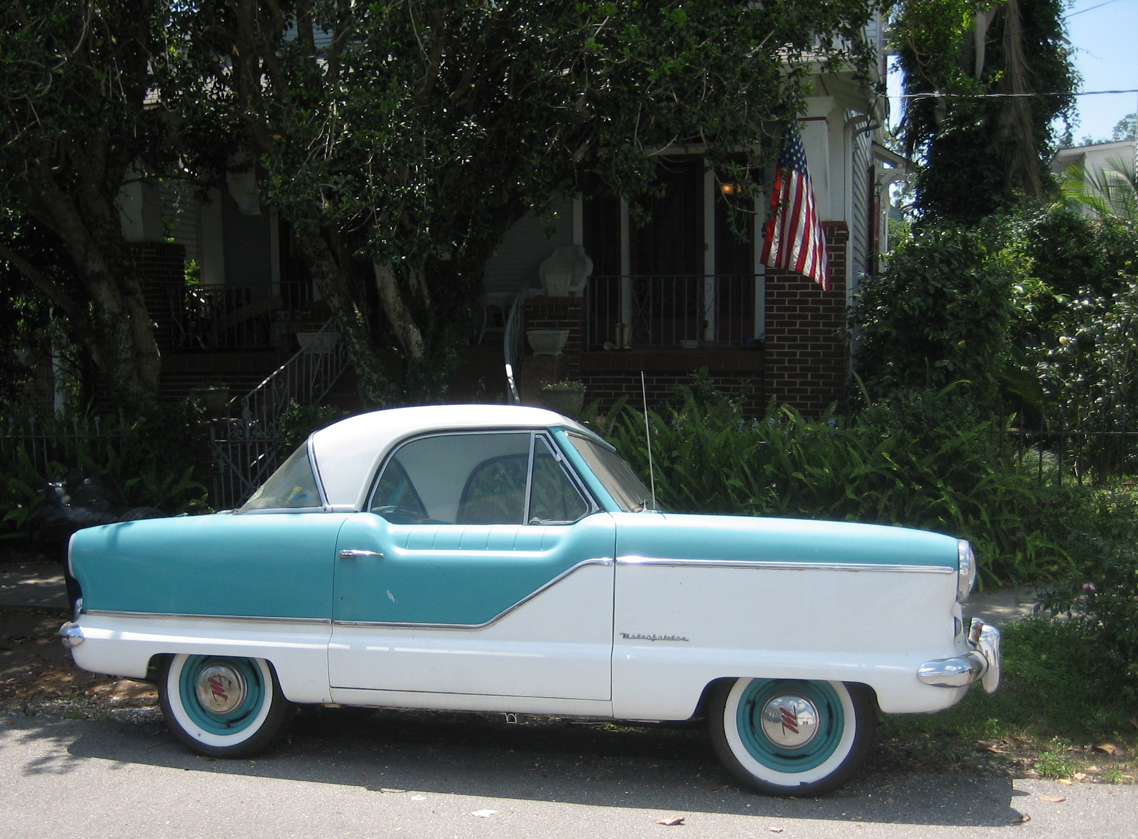 Nash Metropolitan in Algiers Point neighborhood of New Orleans